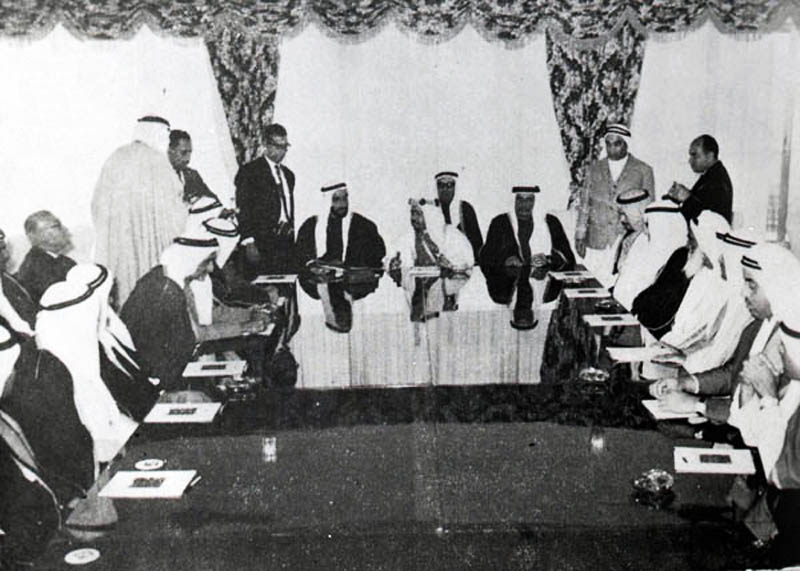 The Bahraini emir Isa bin Salman Al Khalifa (middle) heads the opening session of the first conference on the formation of a union consisting of the emirates of the Persian Gulf in February 1968. Shaikh Zayed bin Sultan Al Nahyan is seen middle left.